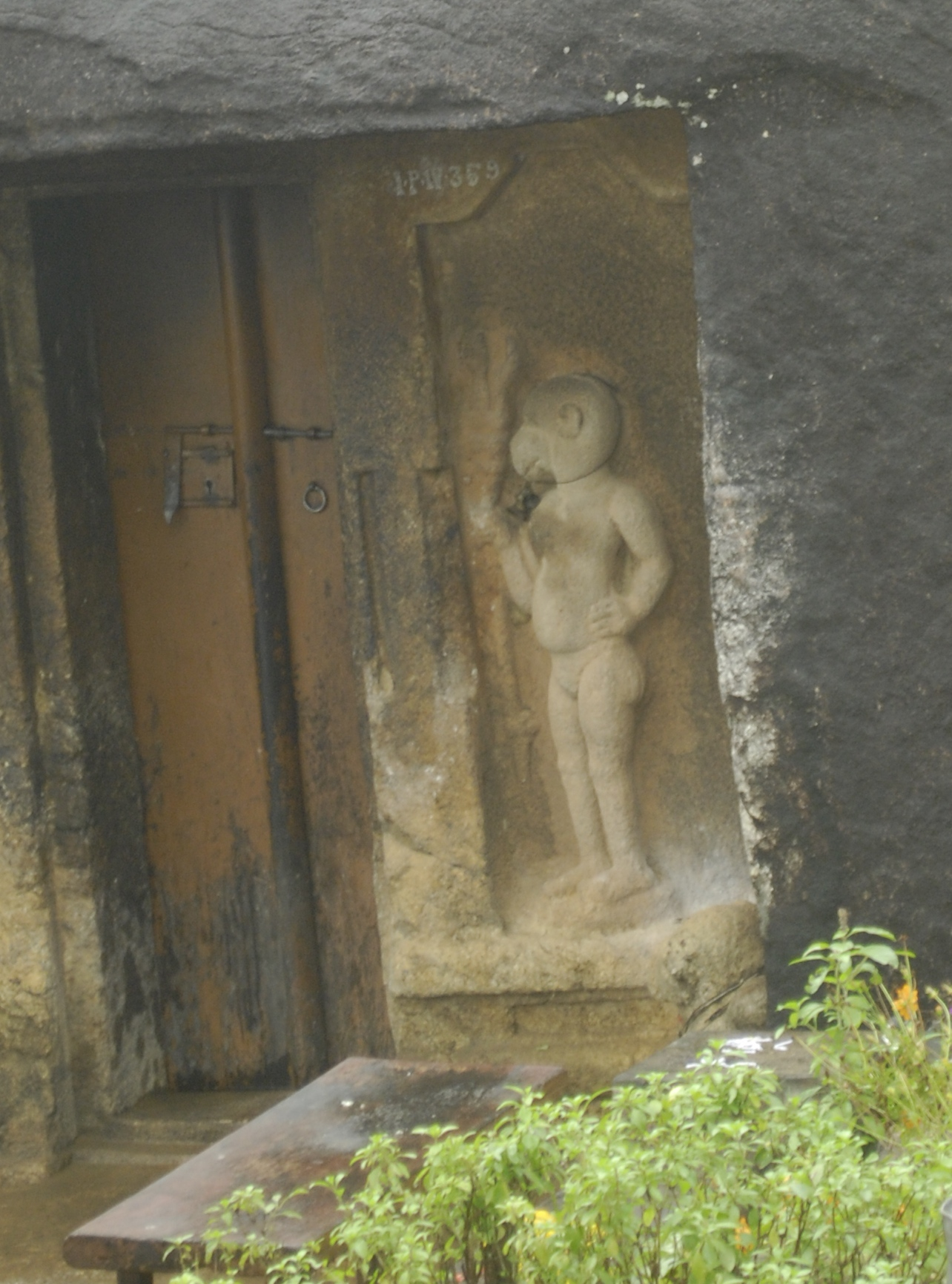 Kottukal cave temple detail